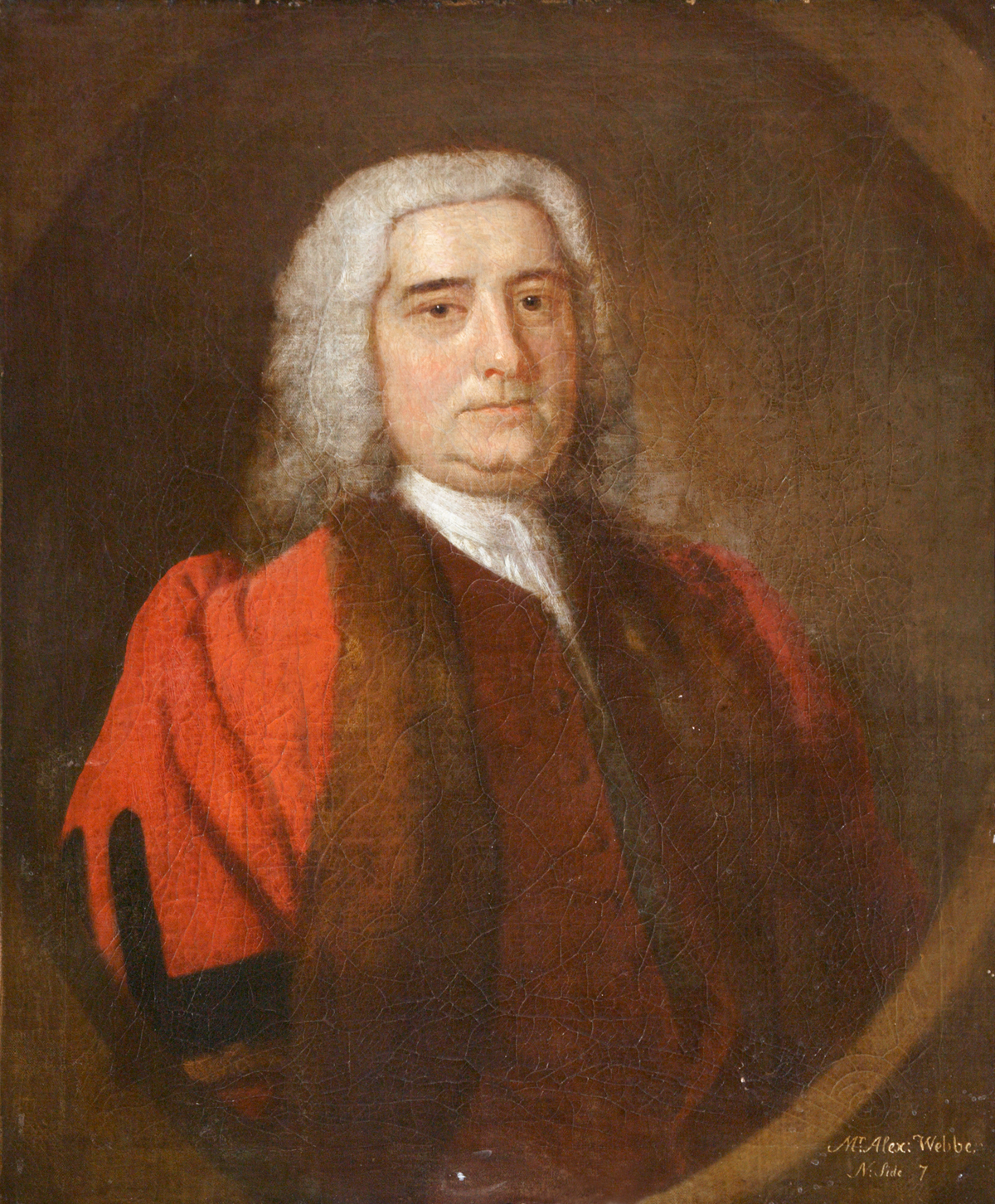 Alexander Webber (1685-1739), fourth generation pewterer of Barnstaple, North Devon, Mayor of Barnstaple in 1737.